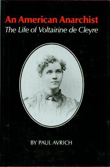 Hardcover jacket of An American Anarchist: The Life of Voltairine de Cleyre by Paul Avrich